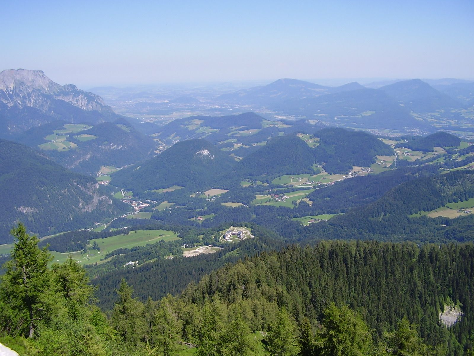 Panorama from Kehlsteinstraße, the road wich leads to the Kehlsteinhaus. The Kempinski Hotel Berchtesgaden is visible in the centre of the picture.